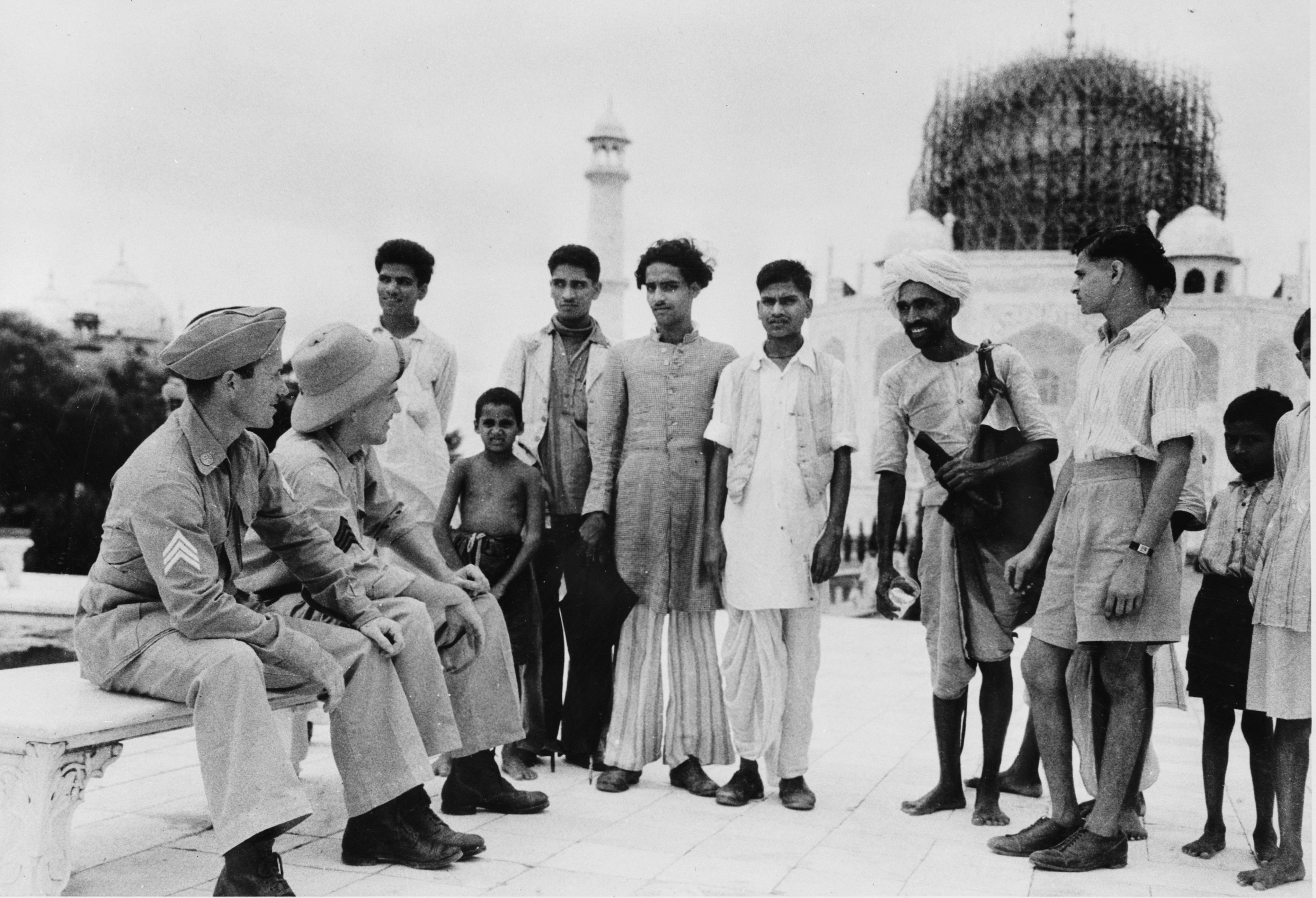 Taj Mahal, Agra, India 1942. The curiosity is mutual as American Sergeants Robert L. Snyder and LeRoy R. Bergin and the natives look each other over during a day of sightseeing at the Taj Mahal. Repository: Library of Congress Prints and Photographs Division Washington, D.C. 20540. Public Domain.